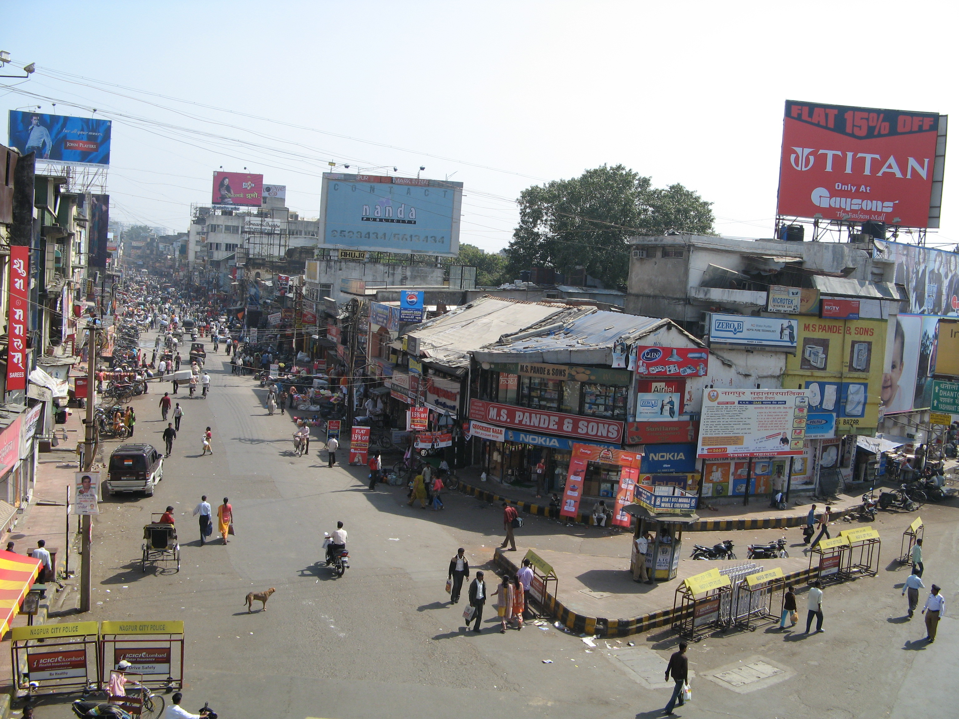 Sitabuldi main road as seen from the flyover. I took this photo myself. Had a hard taking this photo as traffic police were blowing their whistles at me to go away :-)